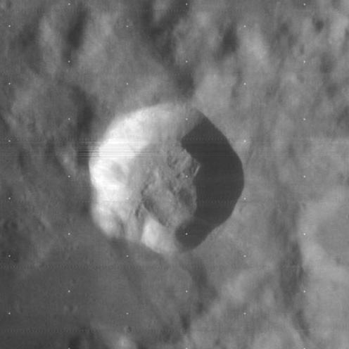 Proclus (crater), on the moon.